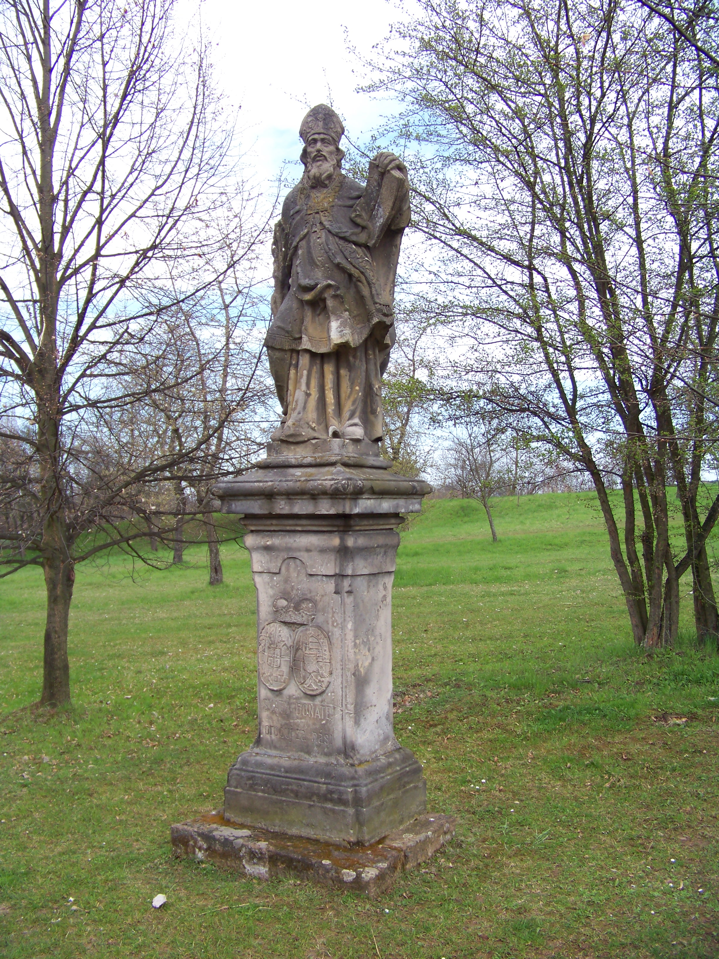 Kouřim, Kolín District, Central Bohemian Region, the Czech Republic. Open air museum.